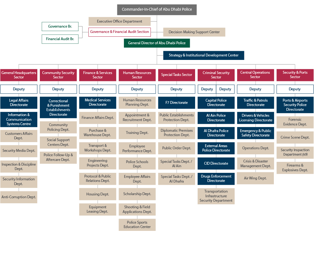 Abu Dhabi Police Organization chart